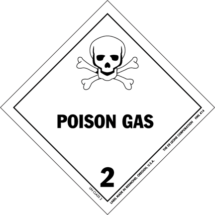 label for dangerous goods, class 2.3